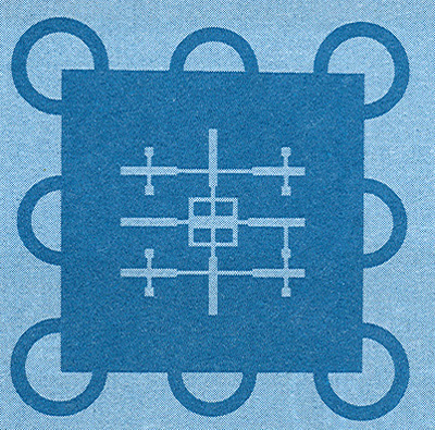 Meimoon Ghal'eh, plan of lower level. Photo by user zereshk.